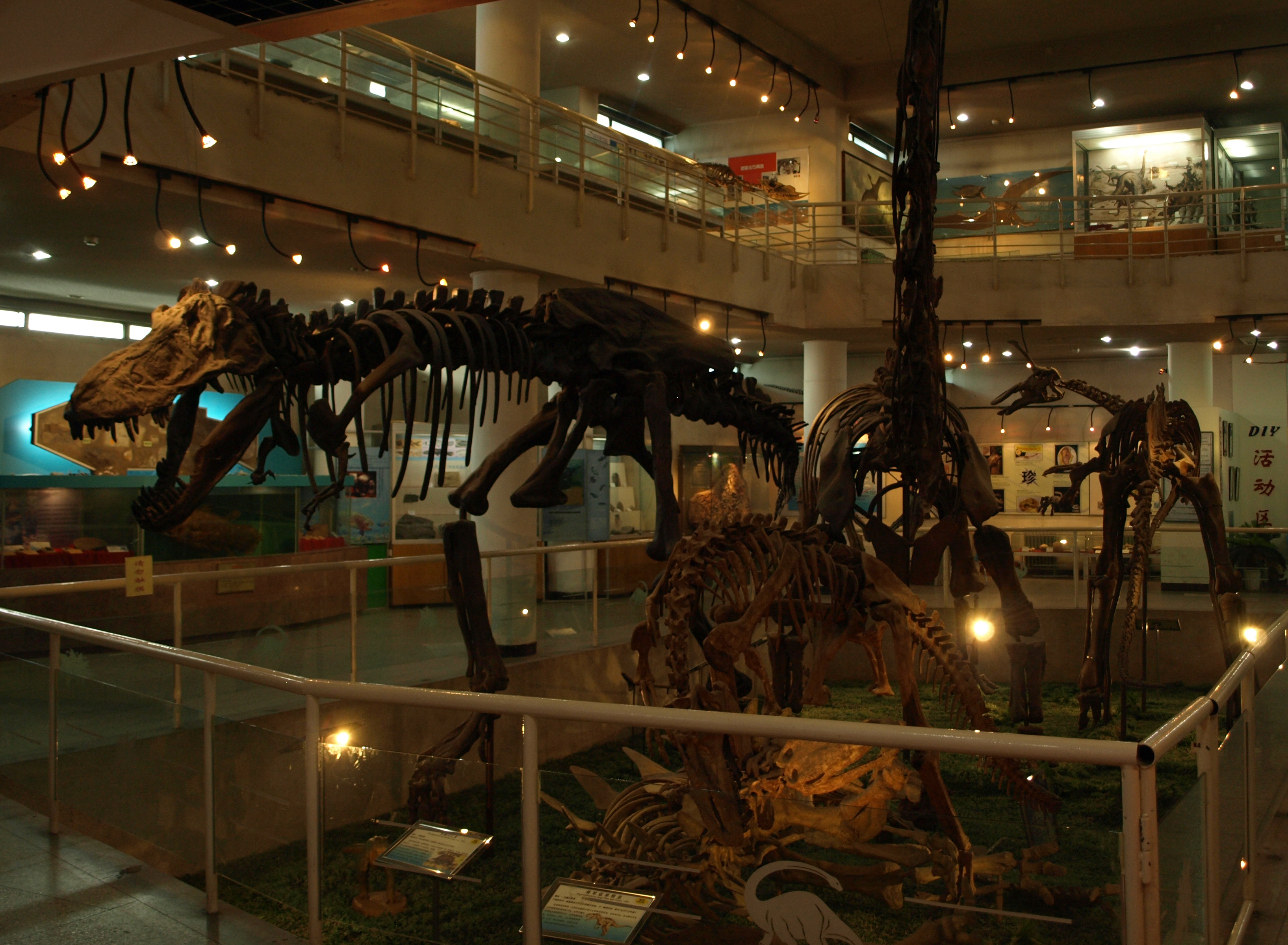 View of the first floor center gallery of the Paleozoological Museum of China in Beijing.